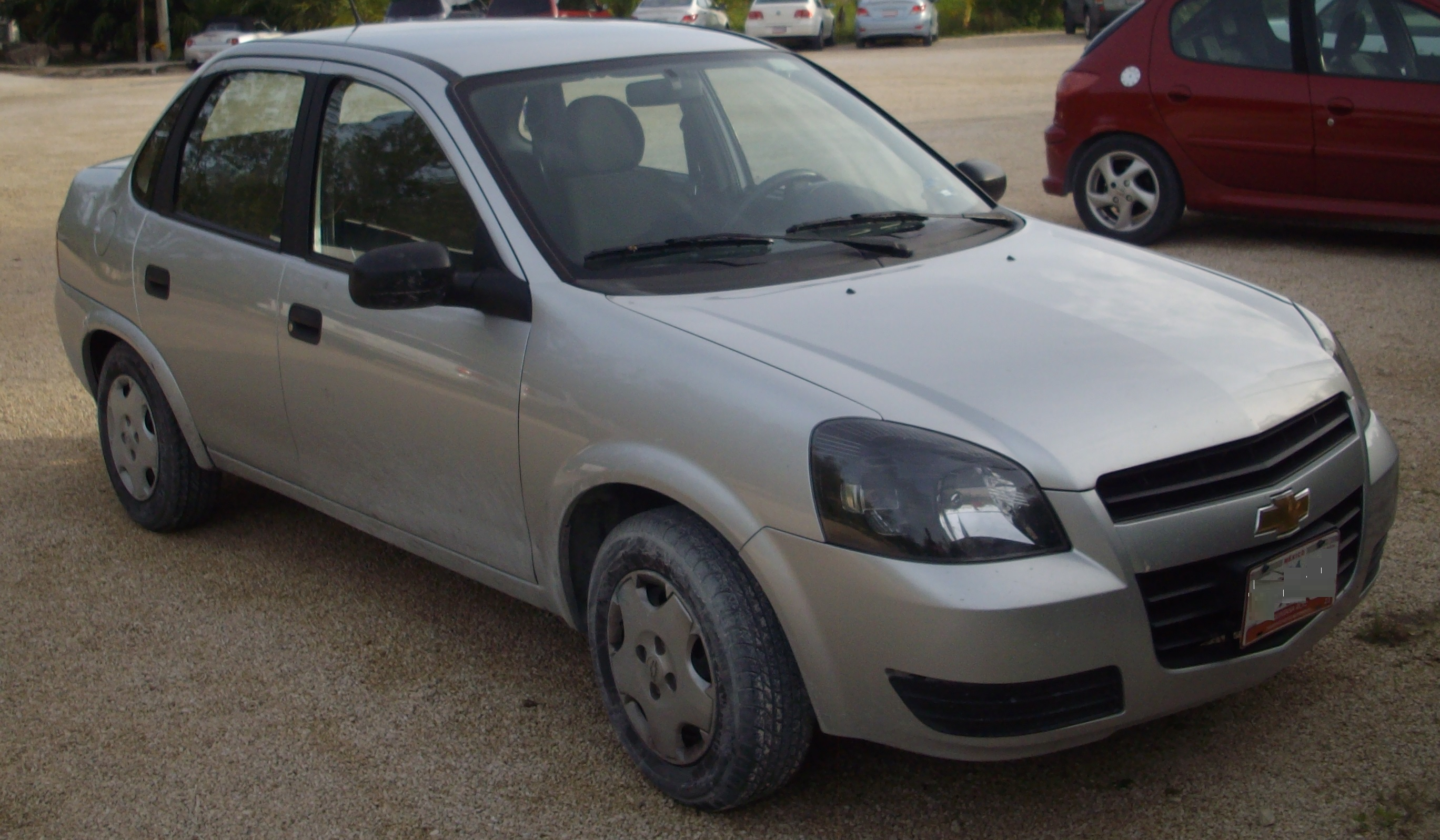 2010-2012 Chevrolet Chevy photographed in Quintana Roo, Mexico.